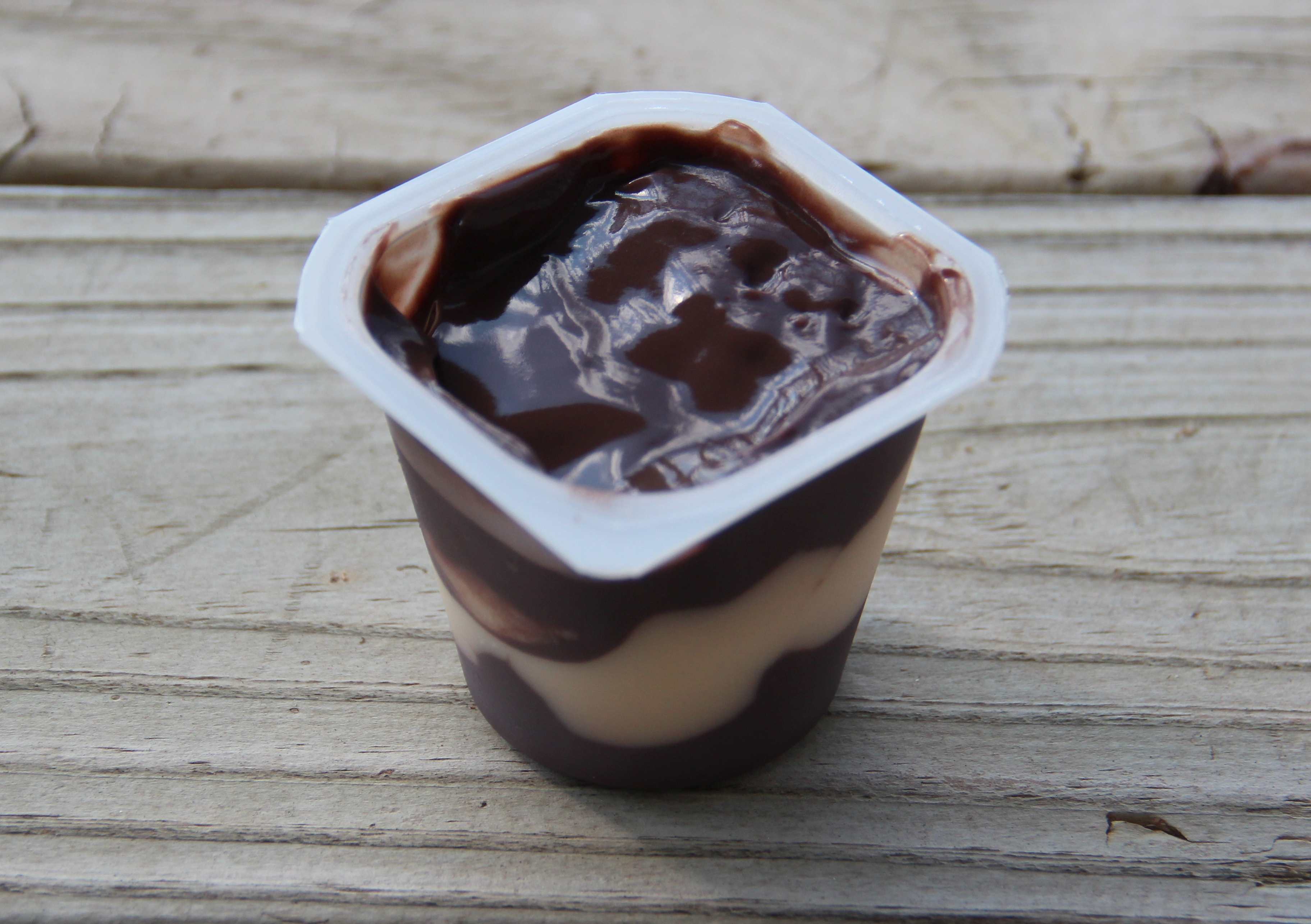 Swiss Miss Chocolate Vanilla Swirl pudding cup